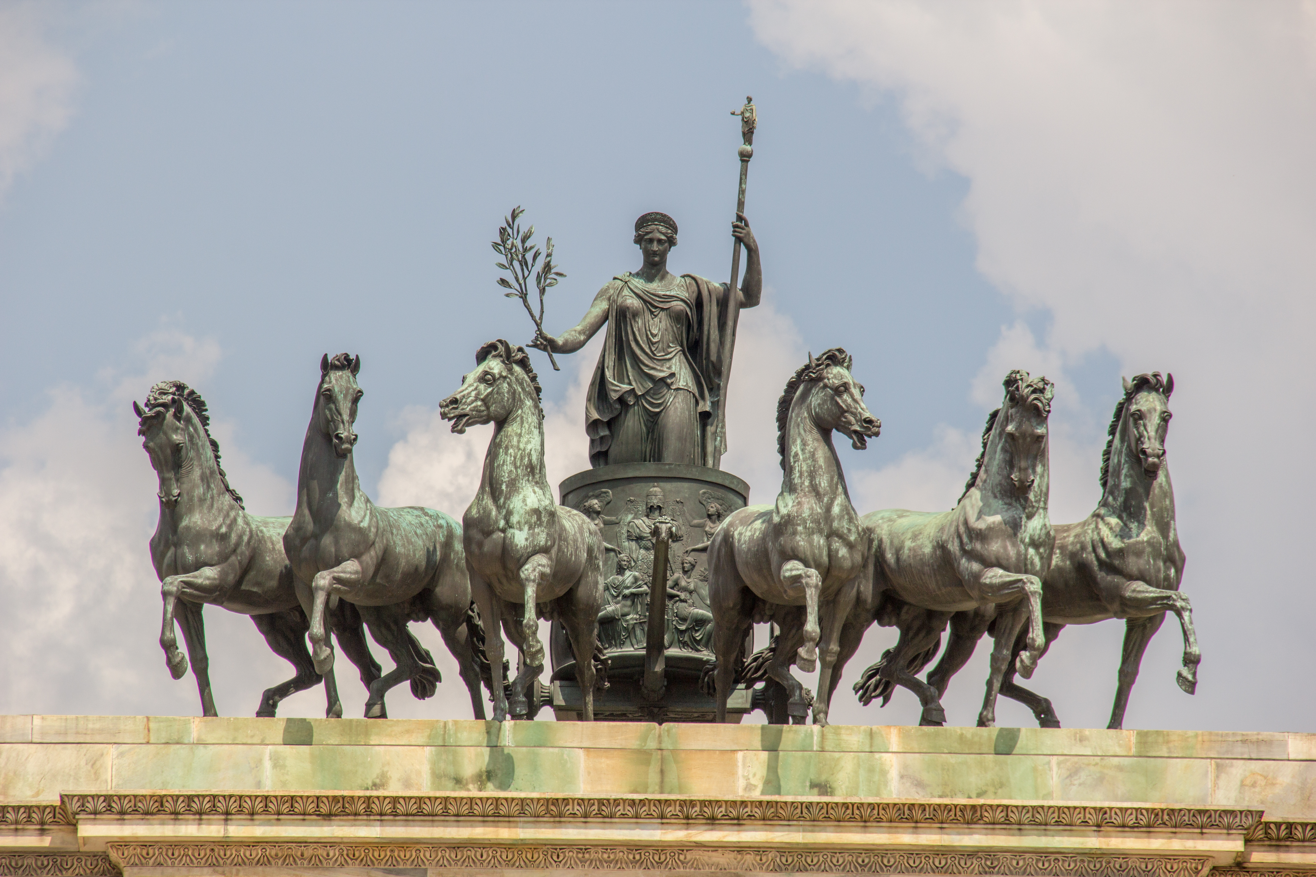 Parco Sempione, Milan. Wikimania 2016, Esino Lario, Italy